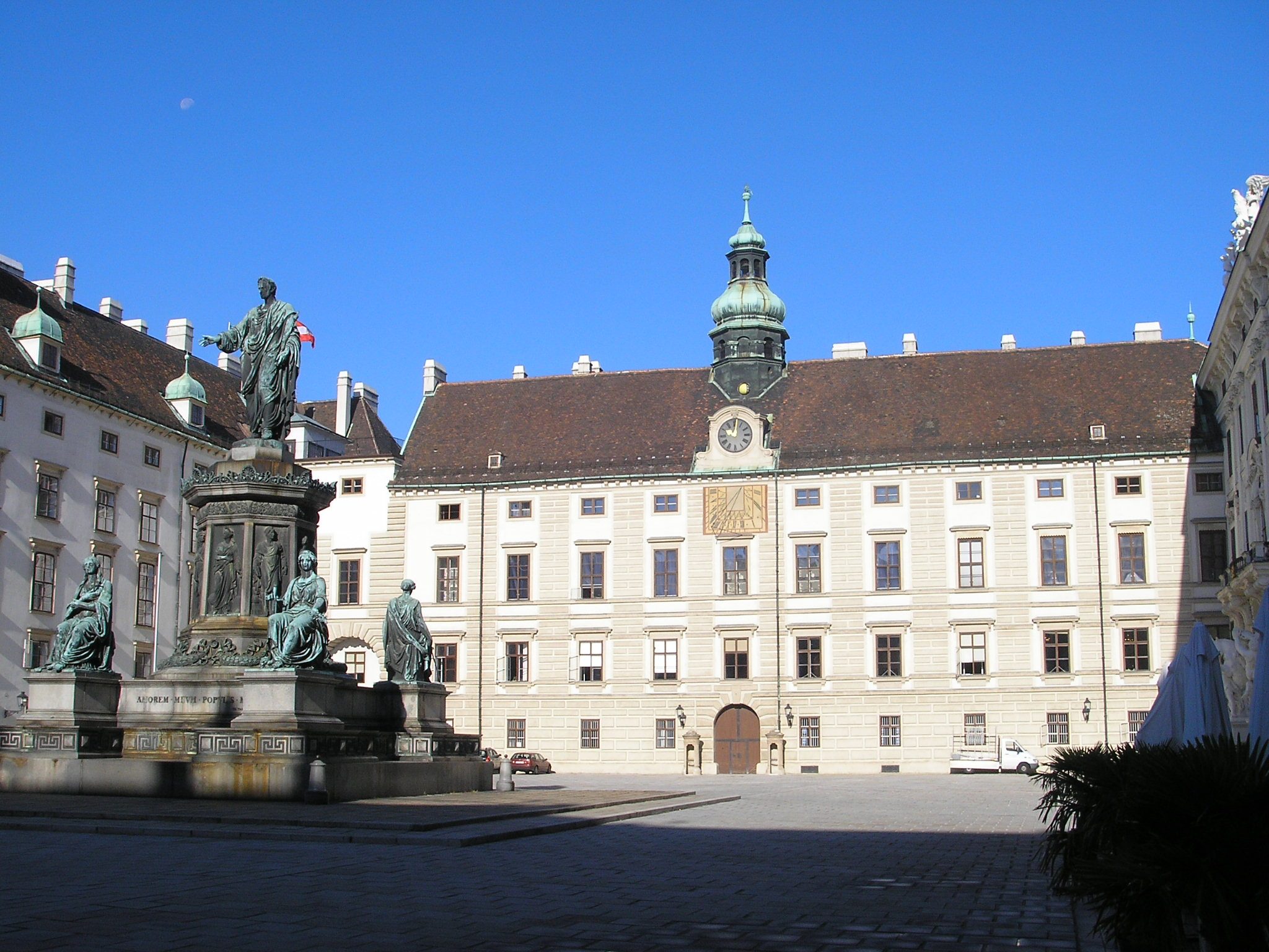 The Amalienburg wing of the Hofburg Imperial Palace in Vienna, view from the Innere Burghof.